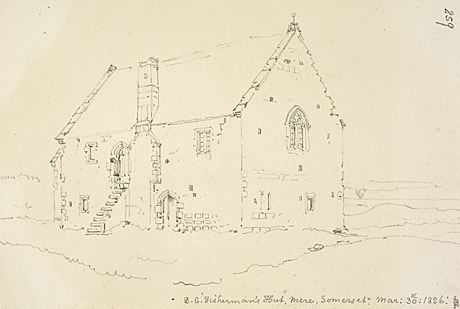 The Fish House at Meare. Drawn in 1826 by JohnC. Buckler